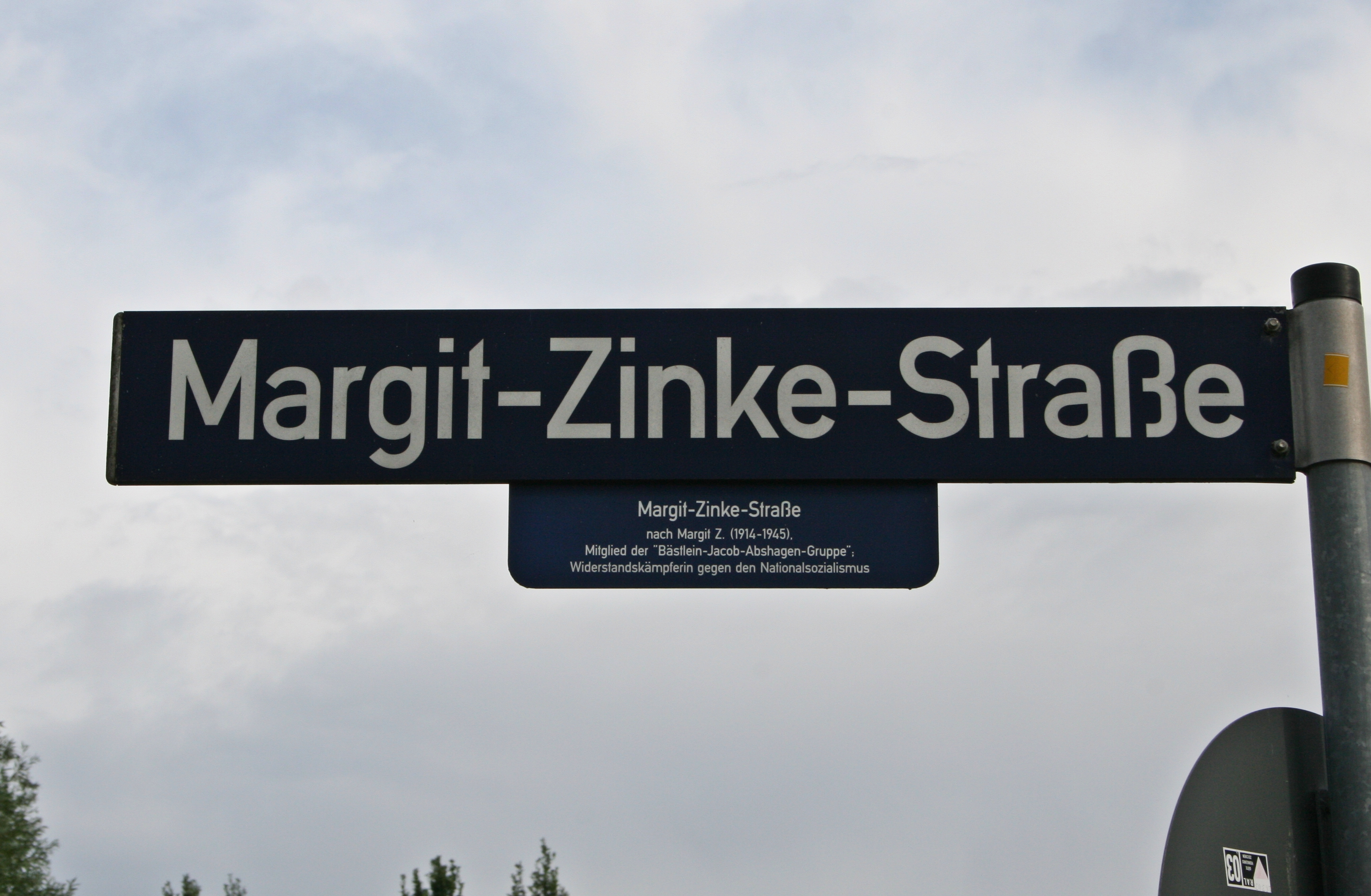 Road sign of the Margit-Zinke-Straße, named after a member of the resistance against Nazism